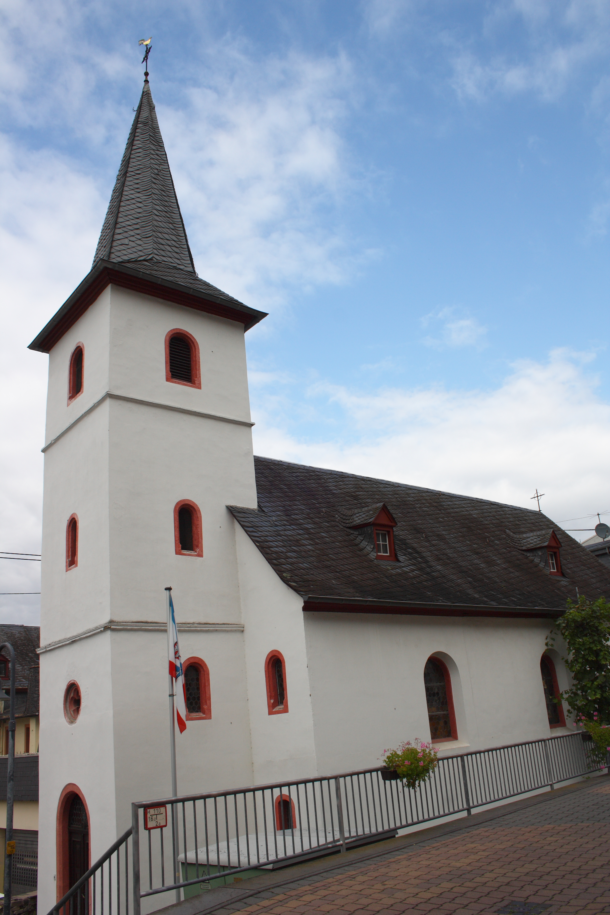 katholische Pfarrkirche St. Johann Nepomuk in Brodenbach im Landkreis Mayen-Koblenz (Rheinland-Pfalz)